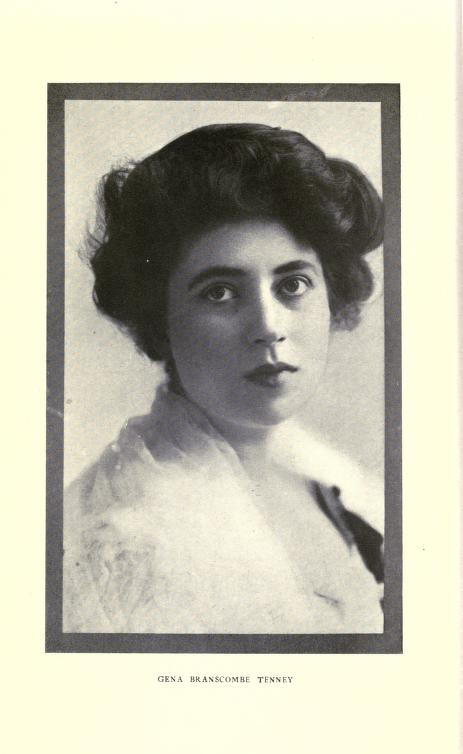 Gena Branscome Tenney